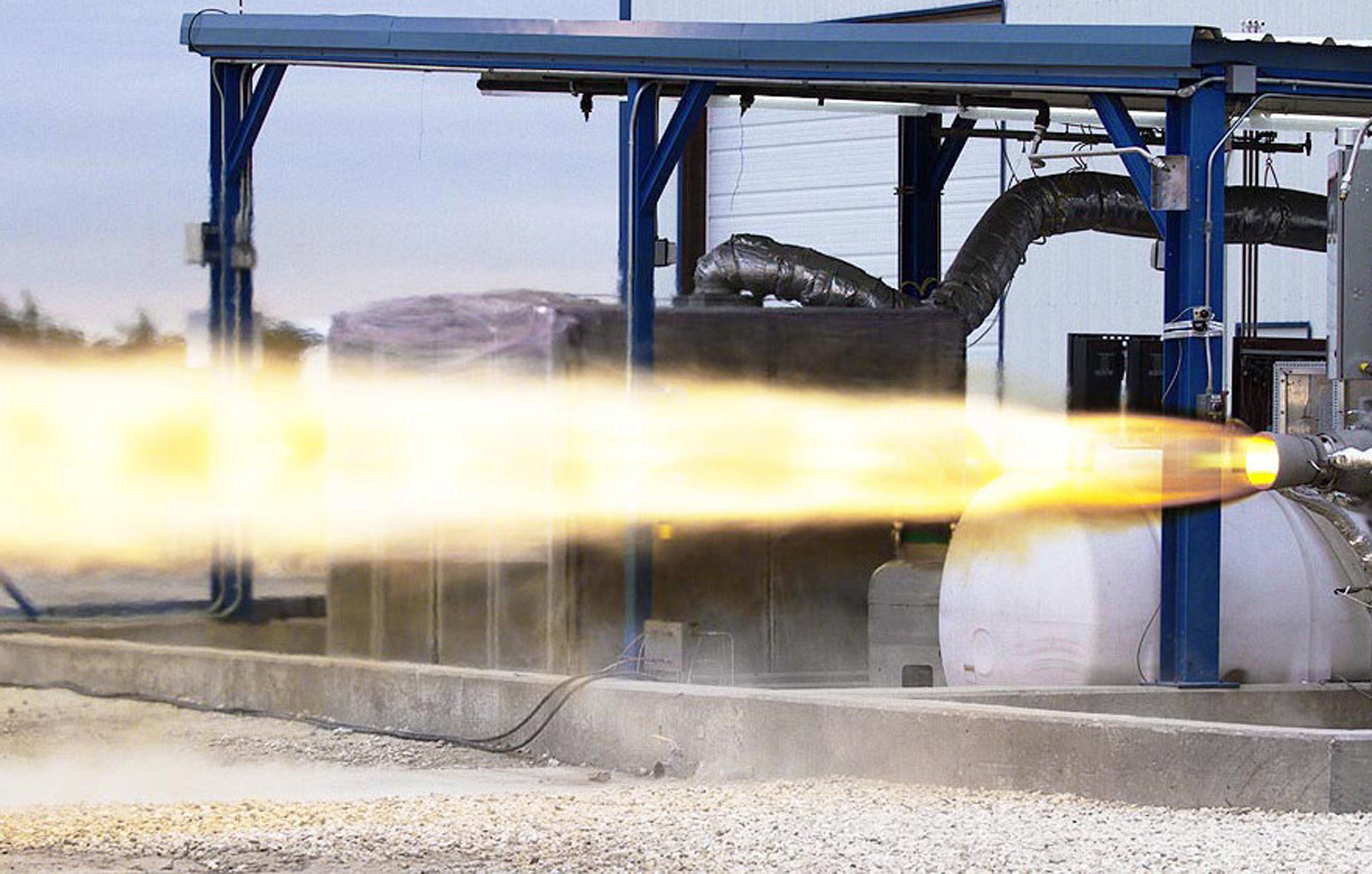 Space Exploration Technologies (SpaceX) completes a full-duration, full-thrust firing of its new SuperDraco engine prototype at the company’s Rocket Development Facility in McGregor, Texas. The firing was in preparation for the ninth milestone to be completed under SpaceX's funded Space Act Agreement (SAA) with NASA's Commercial Crew Program (CCP). SpaceX is working with CCP during Commercial Crew Development Round 2 (CCDev2) in order to mature the design and development of its Dragon spacecraft with the overall goal of accelerating a United States-led capability to the International Space Station. Eight SuperDracos would be built into the sidewalls of the Dragon capsule to carry astronauts to safety should an emergency occur during launch or ascent. The goal of CCP is to drive down the cost of space travel as well as open up space to more people than ever before by balancing industry’s own innovative capabilities with NASA's 50 years of human spaceflight experience. Six other aerospace companies also are maturing launch vehicle and spacecraft designs under CCDev2, including Alliant Techsystems Inc. (ATK), Blue Origin, The Boeing Co., Excalibur Almaz Inc., Sierra Nevada Corp. and United Launch Alliance (ULA). For more information, visit